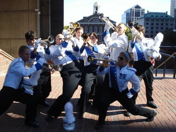 2009 Trumpet section of the University of Massachusetts Lowell Riverhawk Marching Band.